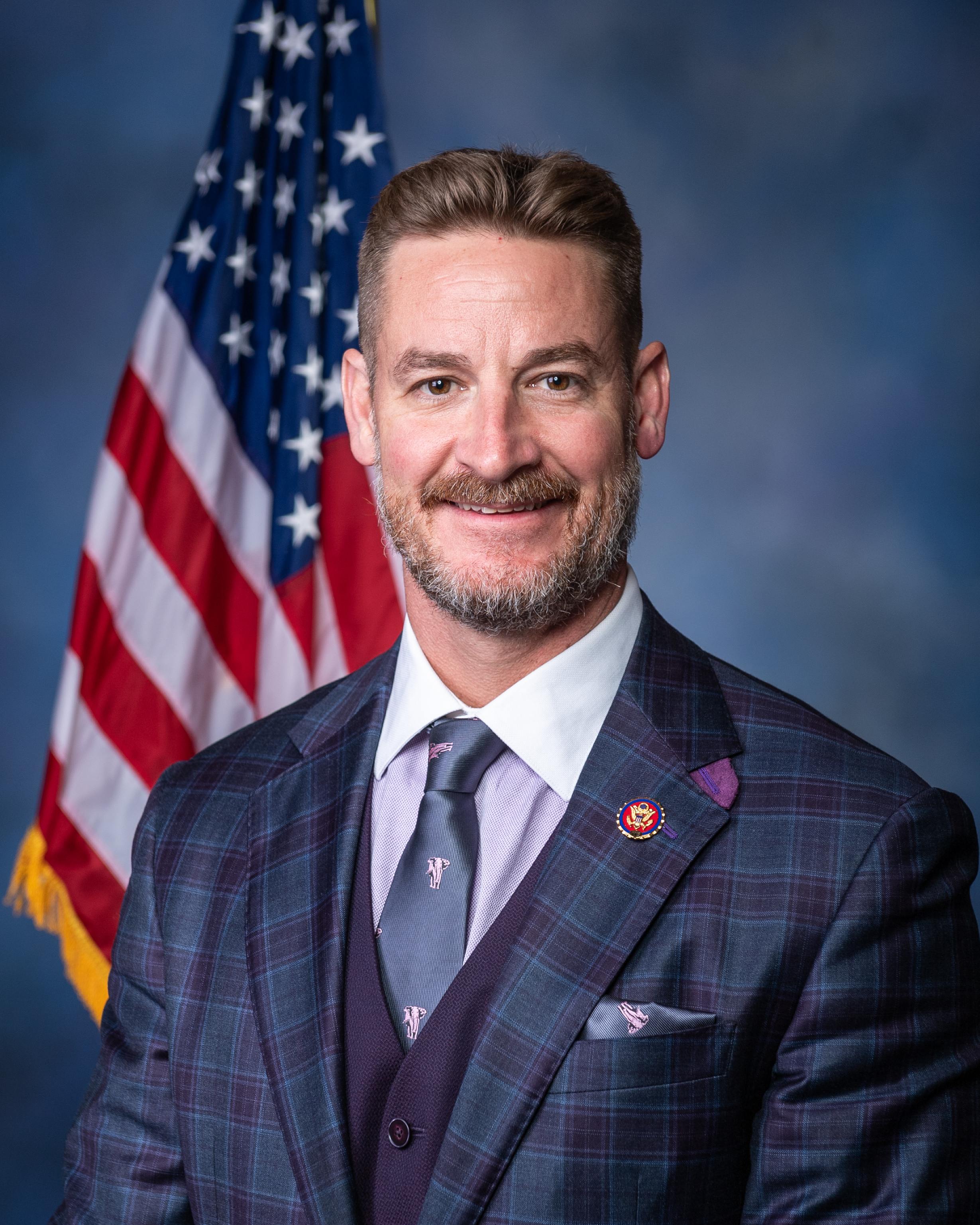 The official headshot of Rep. Greg Steube (R-FL)